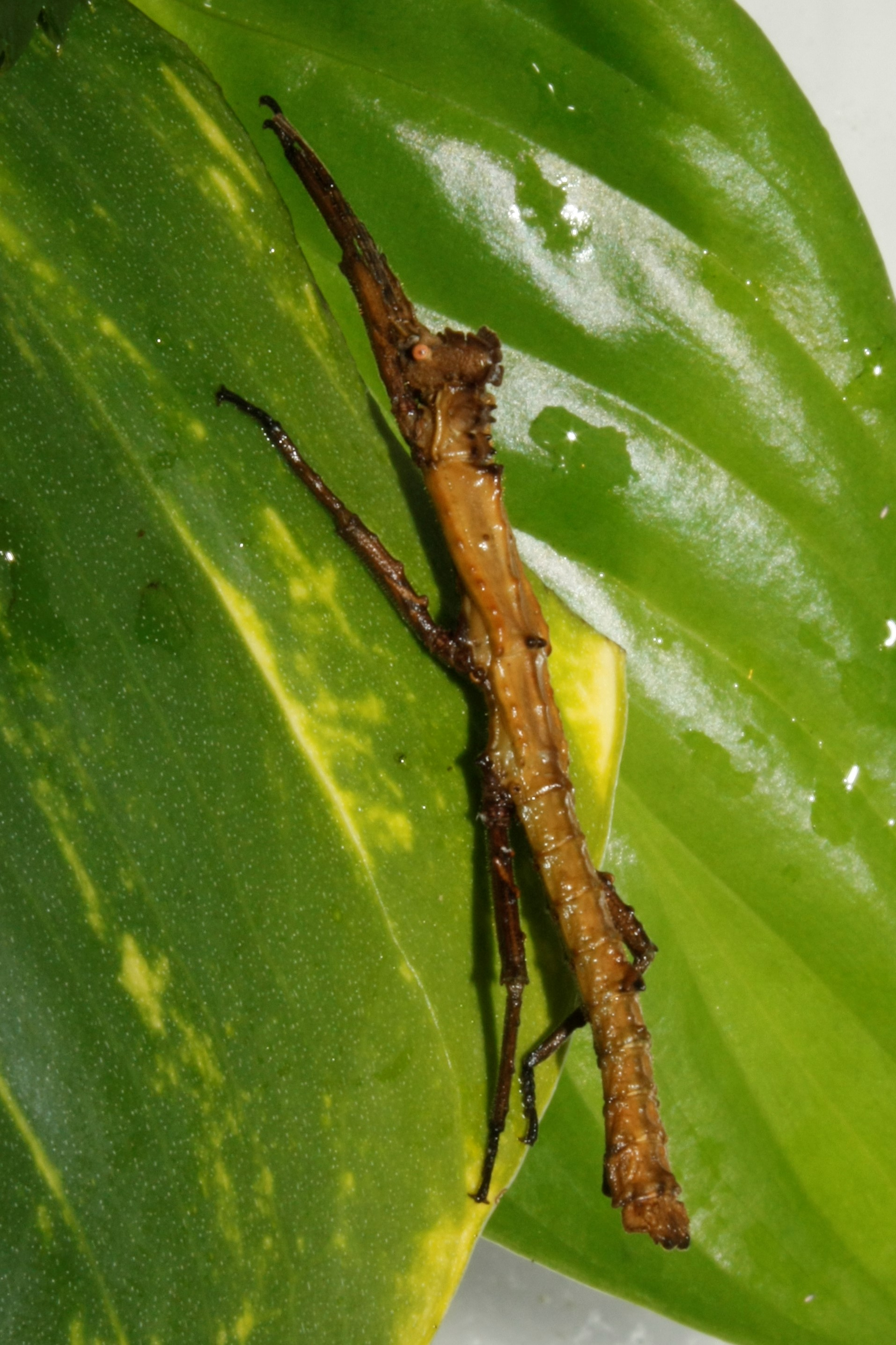 Pylaemenes sepilokensis sepilokensis, male specimen